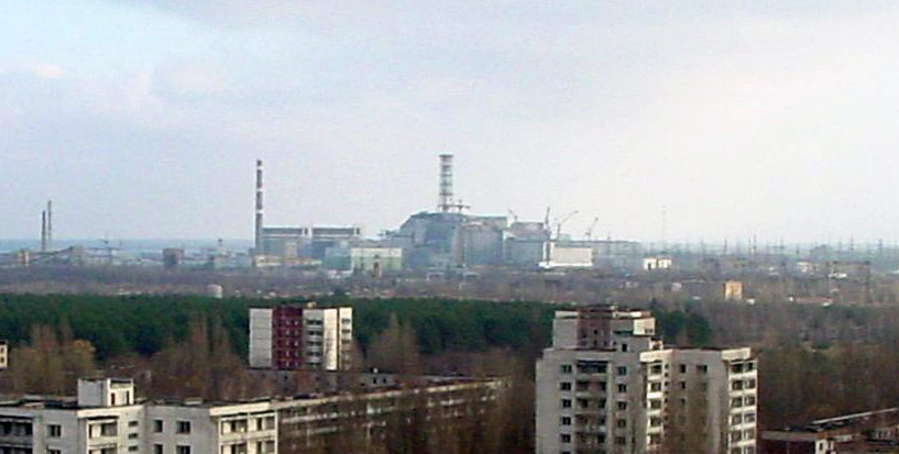 View of Chernobyl taken from roof of building in Pripyat Ukraine. Photo Taken by Jason Minshull, then digitally zoomed.